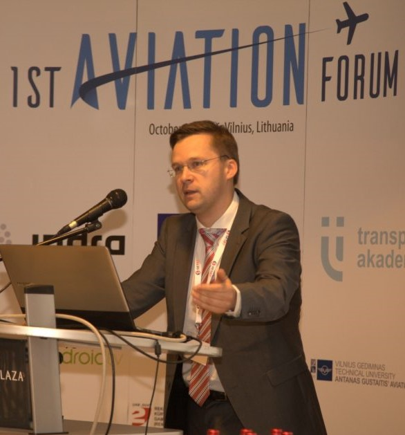 Attorney Dr. Gintautas Šulija, Lithuanian aviation law. Aviation Forum 2016 in Vilnius